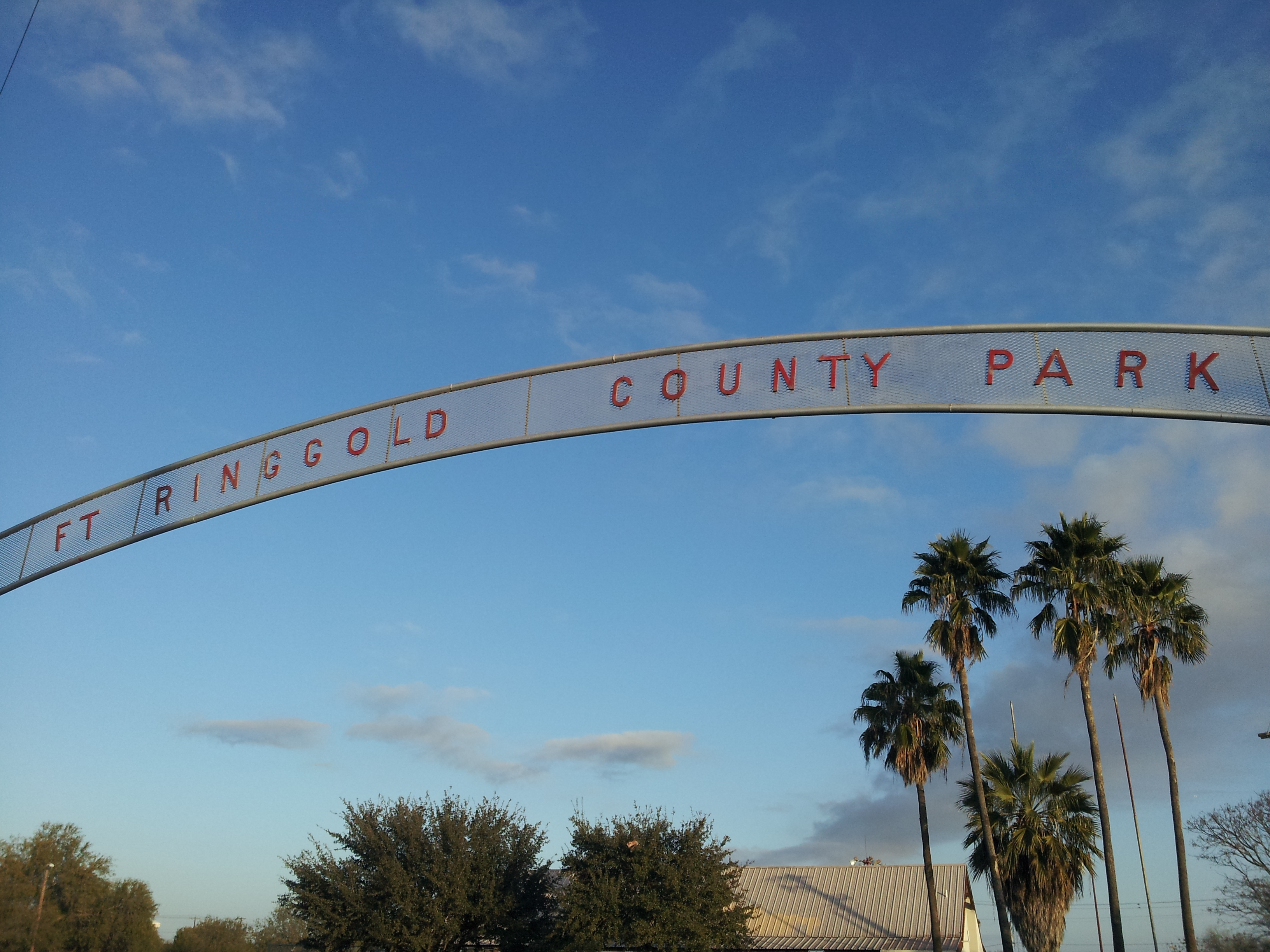 Fort Ringgold County Park